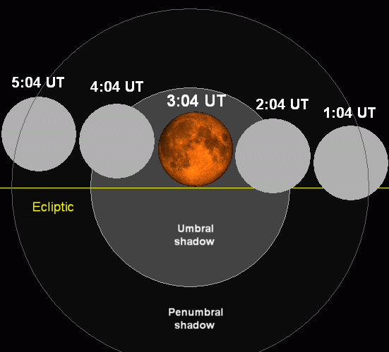 October 2004 lunar eclipse chart of moon's total lunar eclipse path through the earth's shadow. thumb